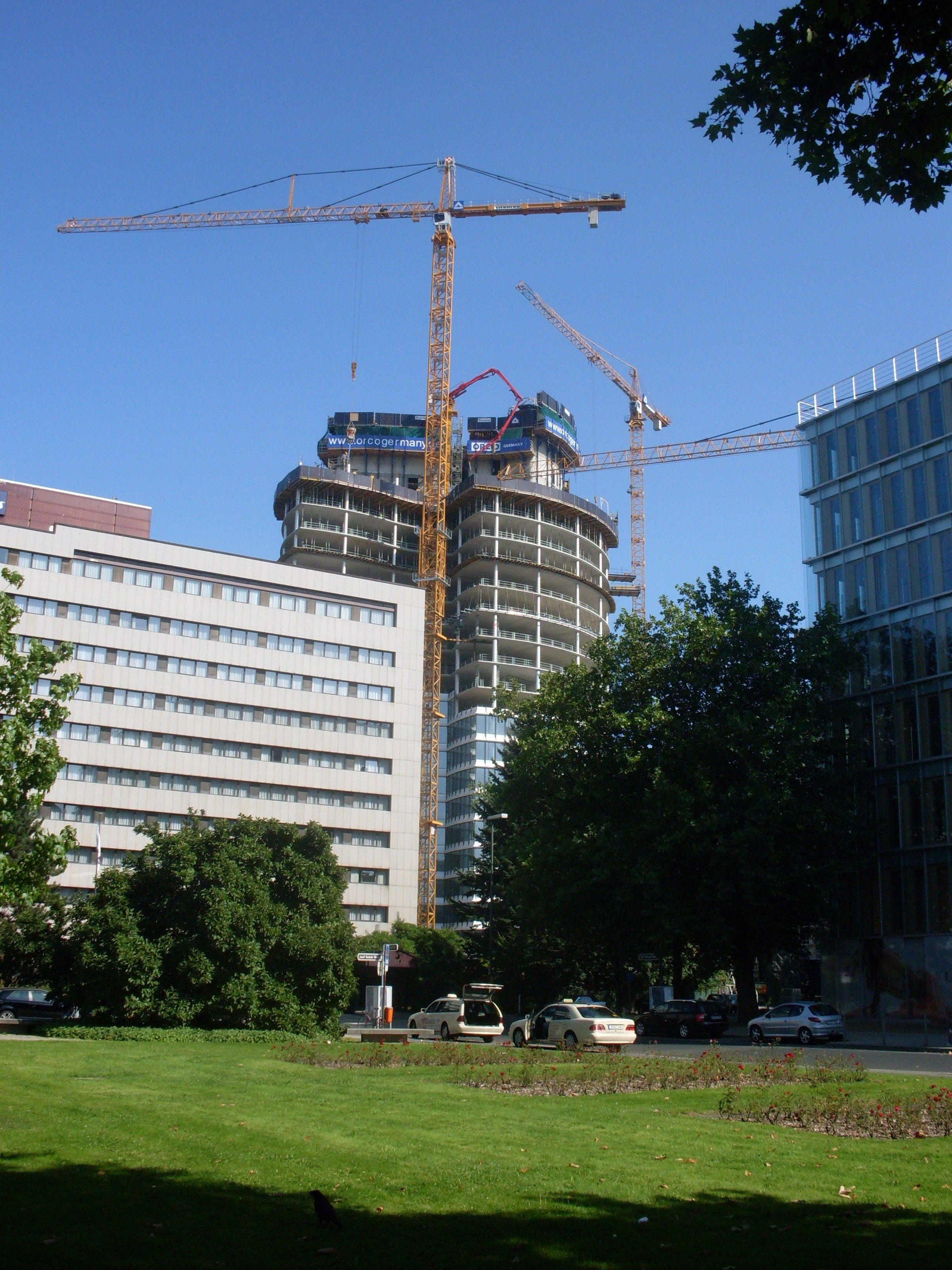 Duesseldorf, SkyOffice High Rise Building under Construction